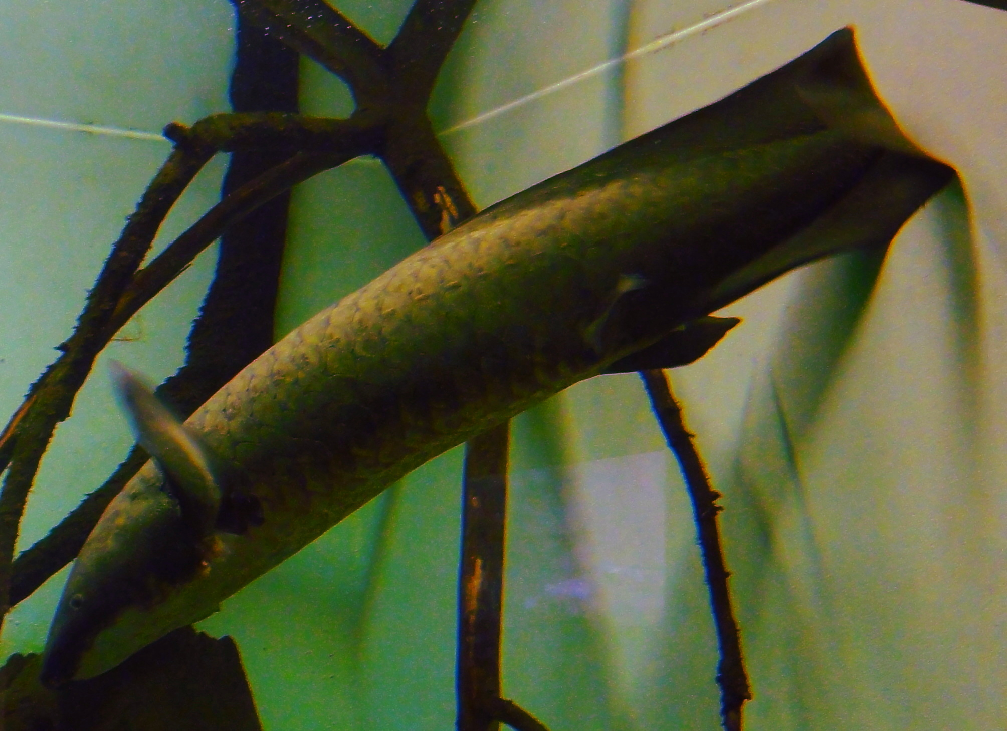 Neoceratodus forsteri